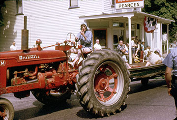 This is a photo of Marcia Yockey doing what she loved best – being a bit wacky in public. She is driving a float in a parade in mid-1966 in Newburgh, Indiana.